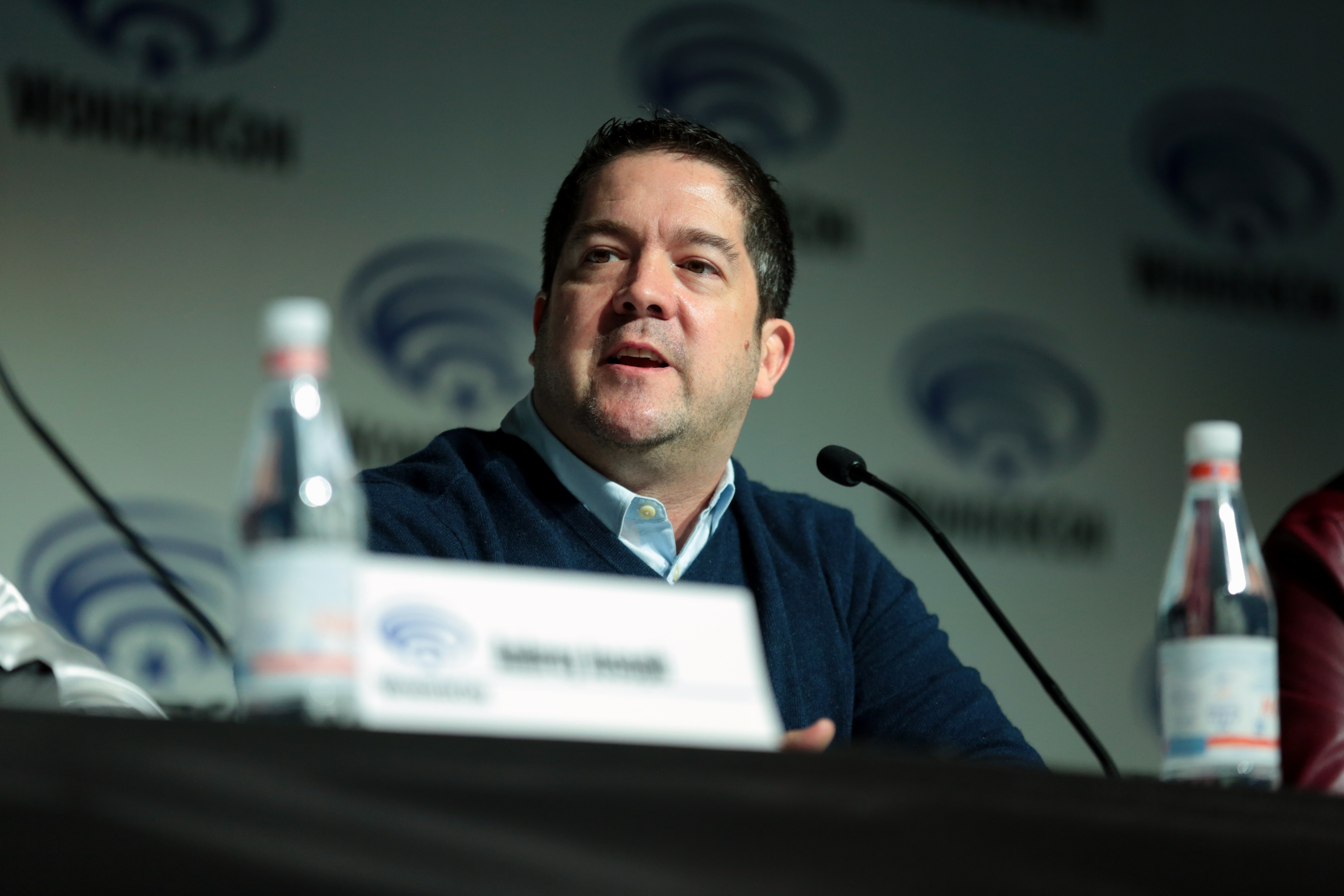 Joe Pokaski speaking at the 2018 WonderCon, for "Cloak & Dagger", at the Anaheim Convention Center in Anaheim, California.